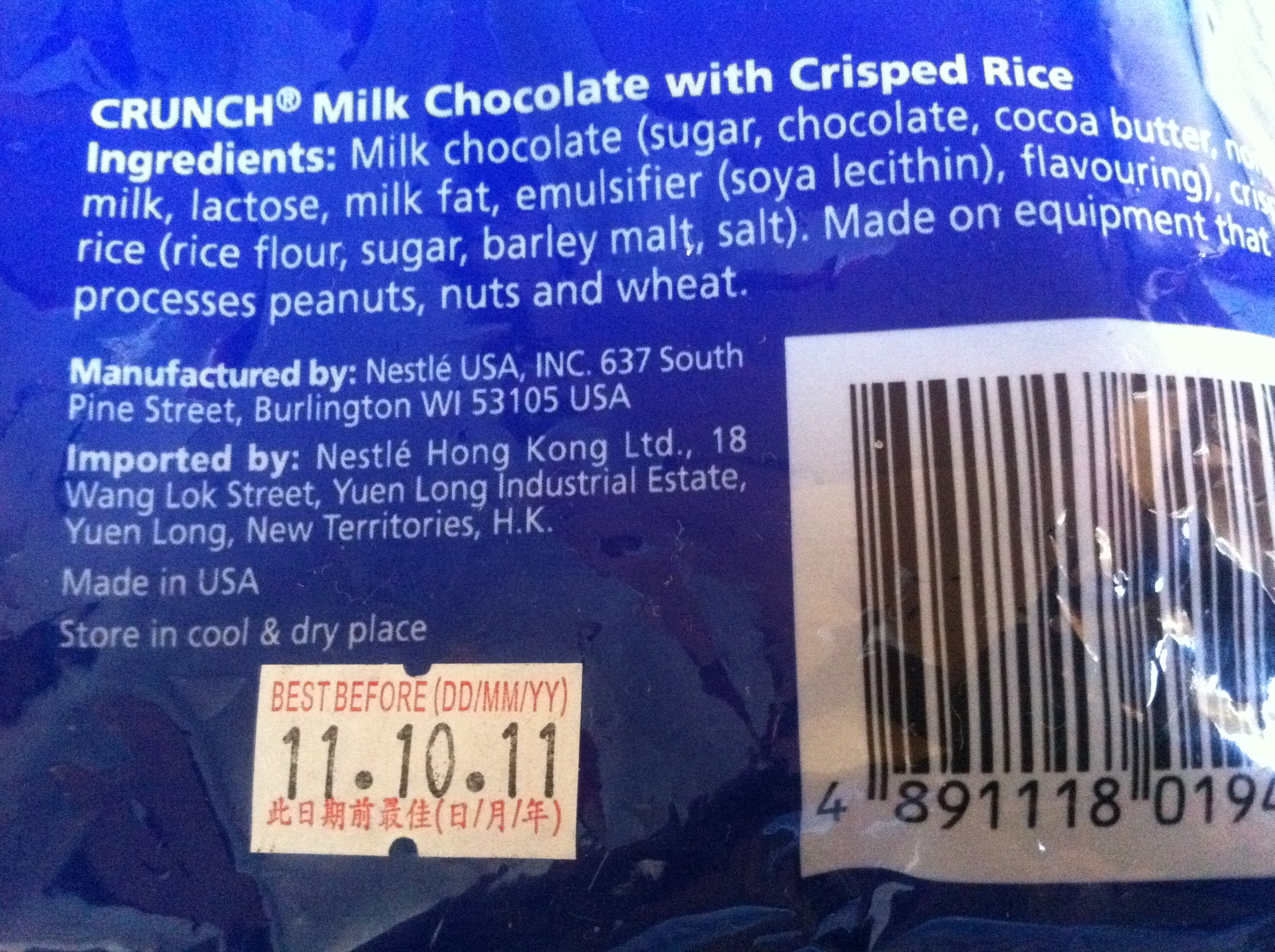 USA snack Nestlé Crunchzh:美國原產zh:雀巢公司巧克力